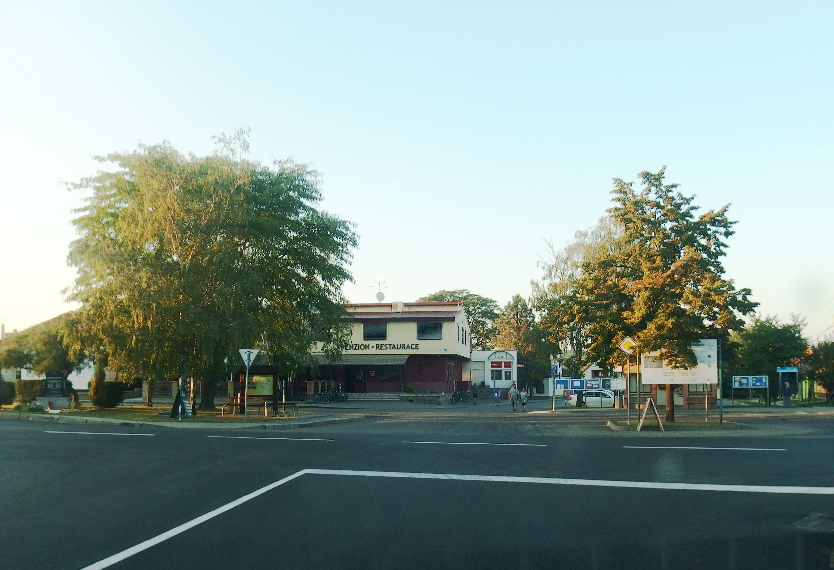 Moravský Žižkov, Břeclav District, Czech Republic.